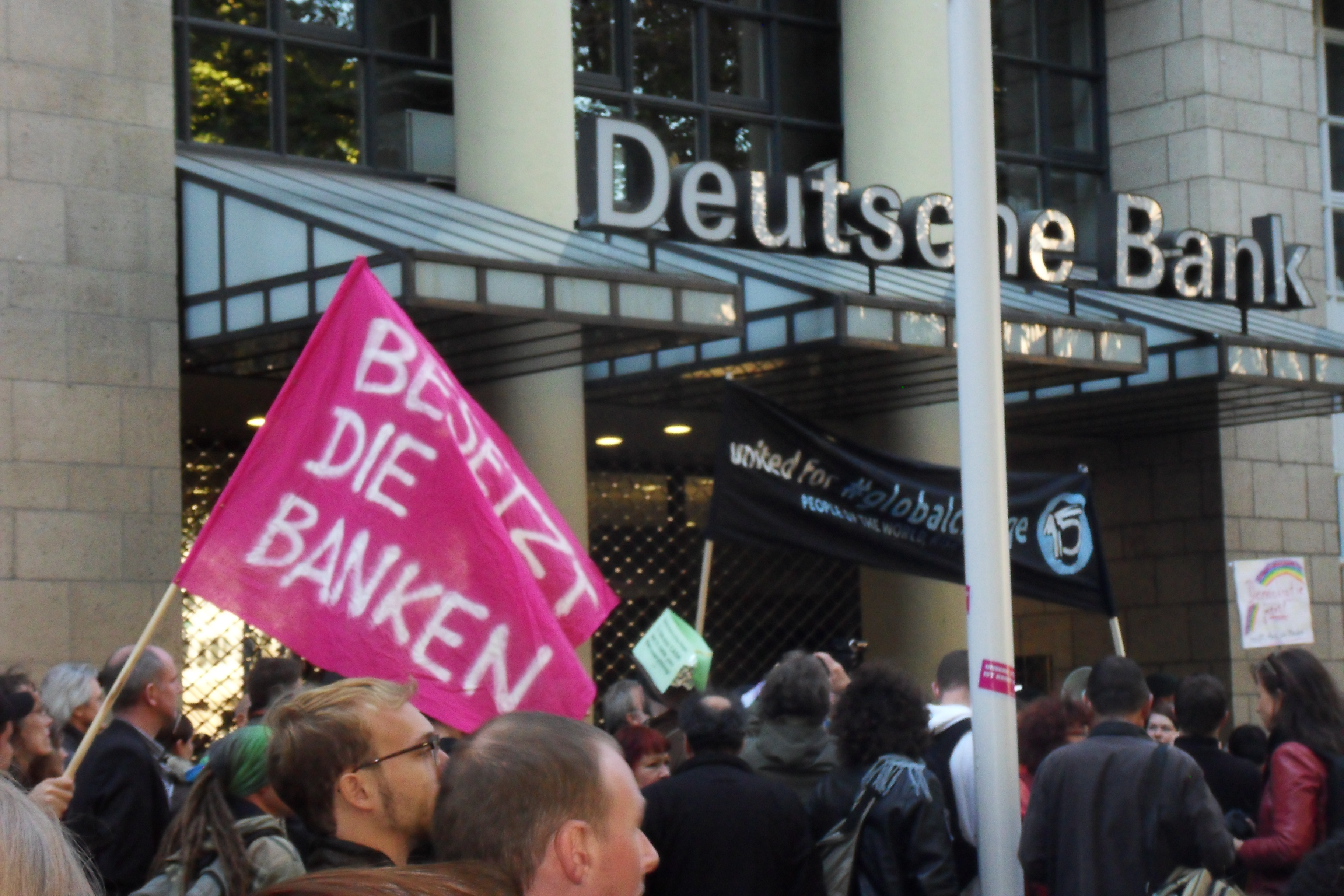 "Occupy" Demonstration in Duesseldorf, Germany, 15 October 2011